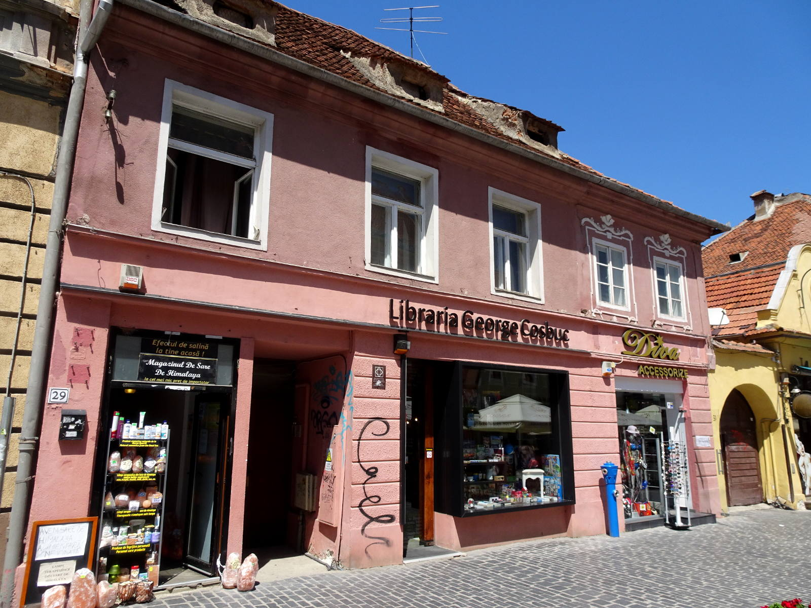 House on Republicii street, Brașov